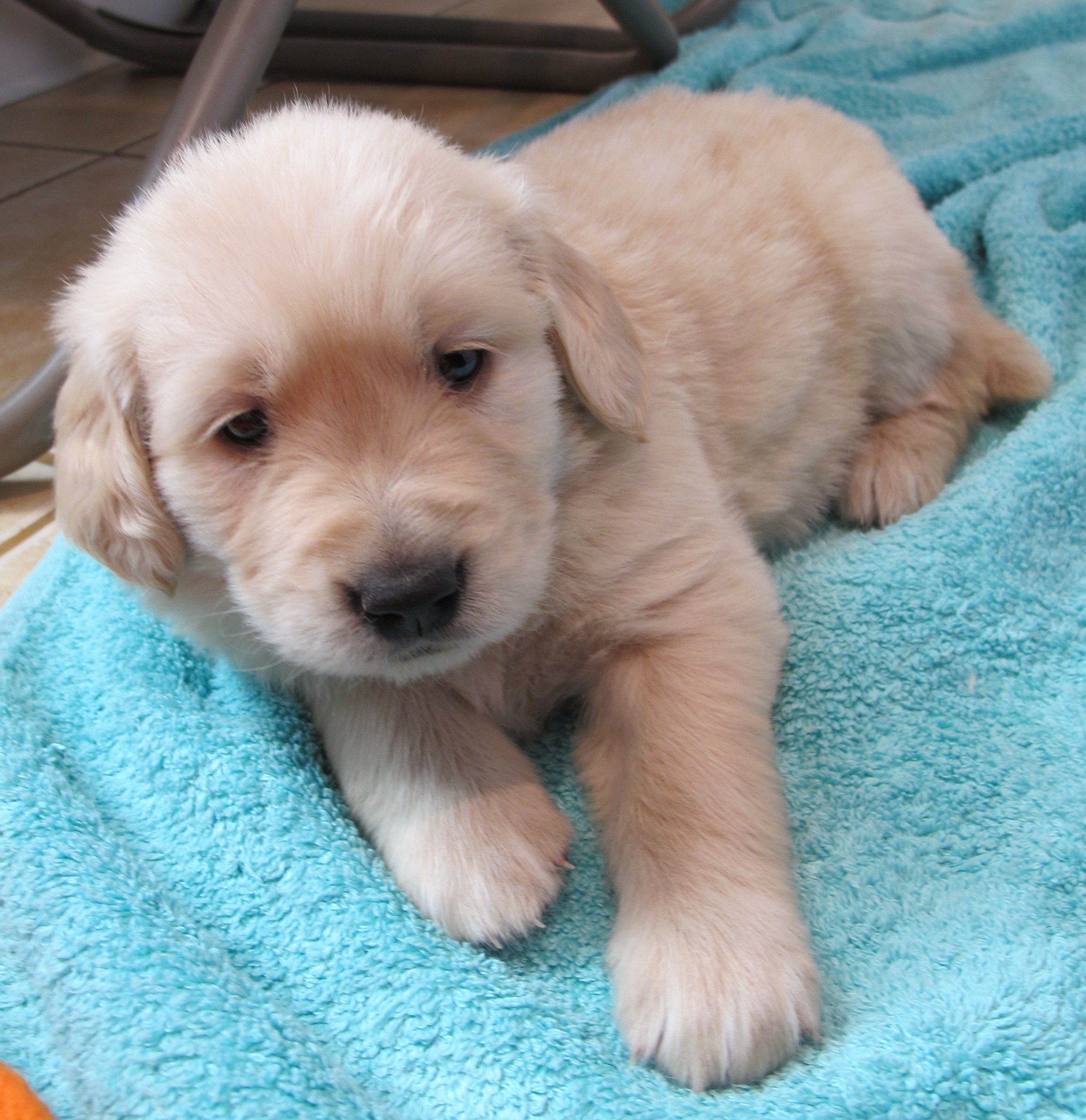 5-week-old golden retriever puppy